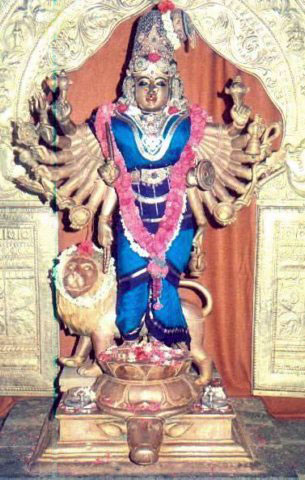 Photograph by self of Deity at Skandhashramam, Salem, India.